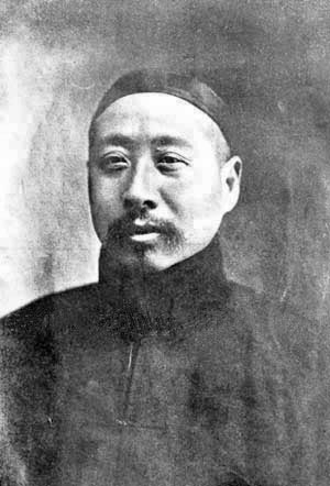 Zhou Xuexi (1865－1947)